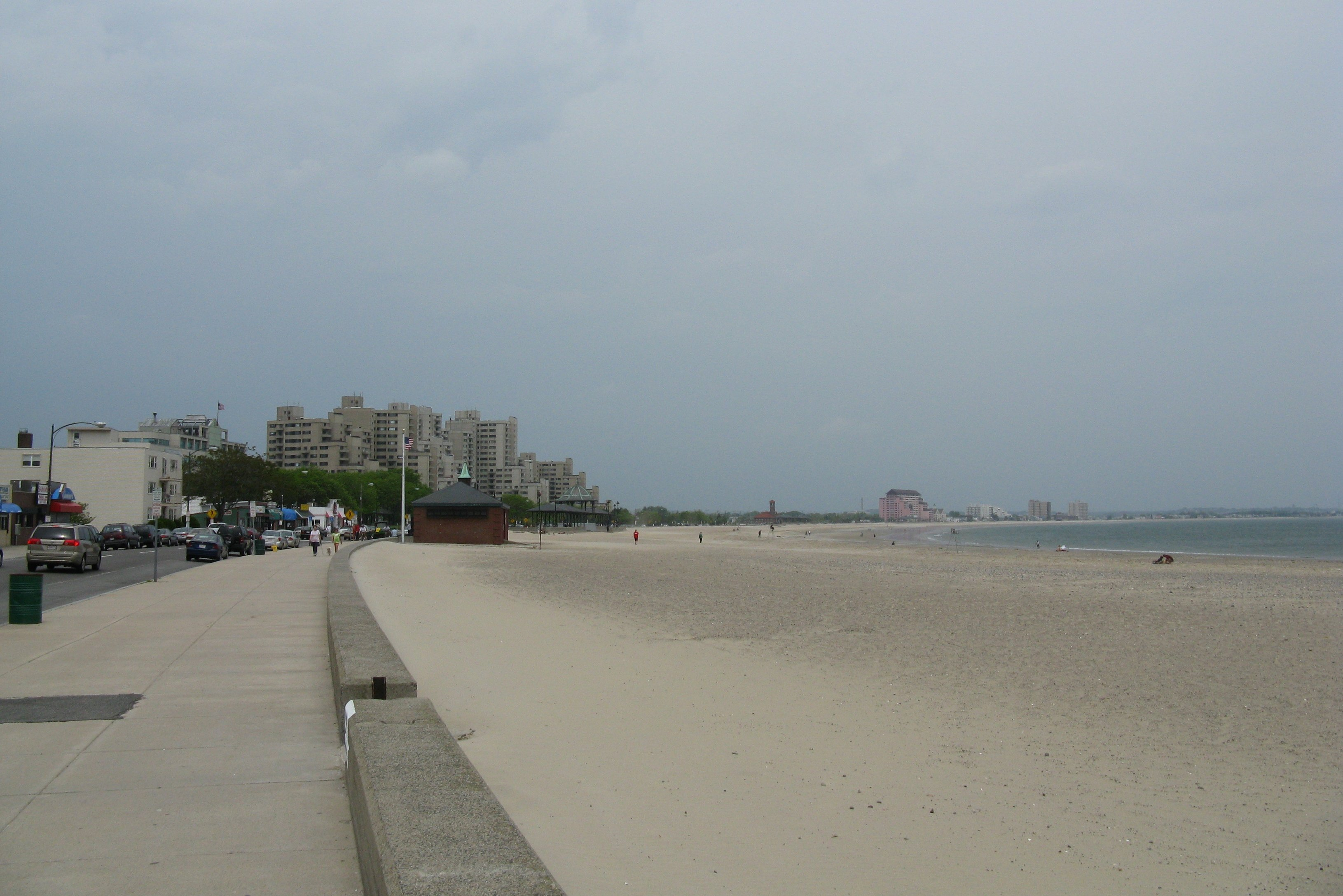 Revere Beach, Revere Massachusetts